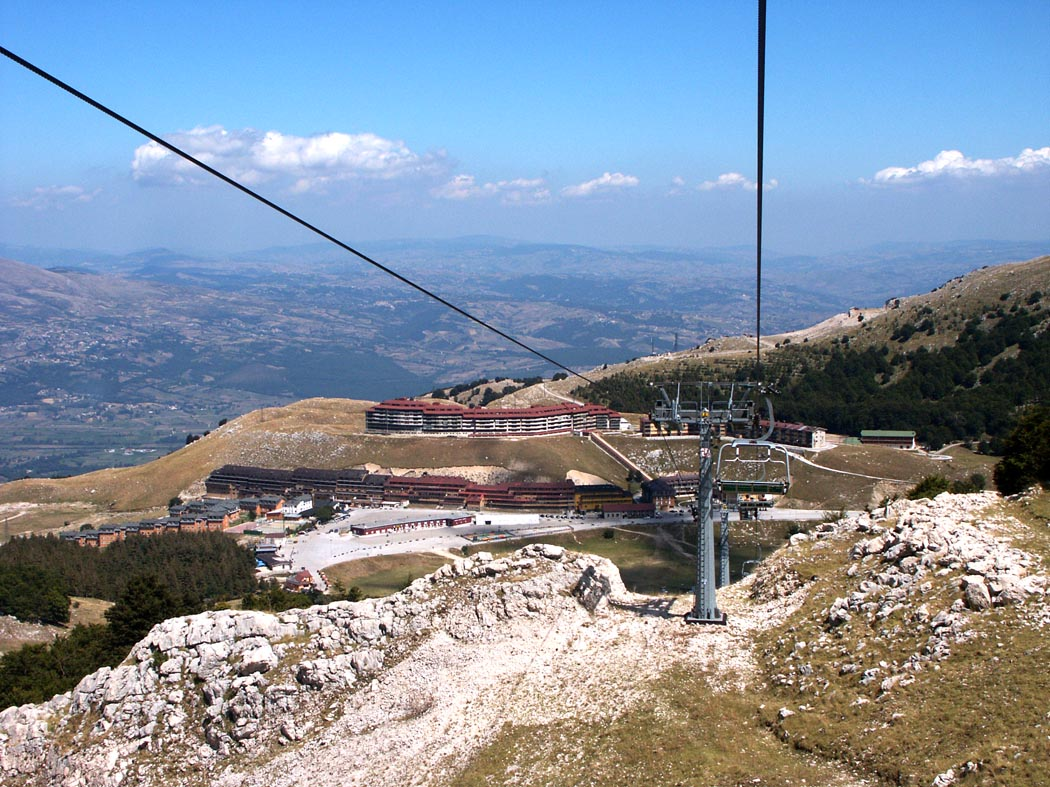 Panoramic view of Campitello Matese